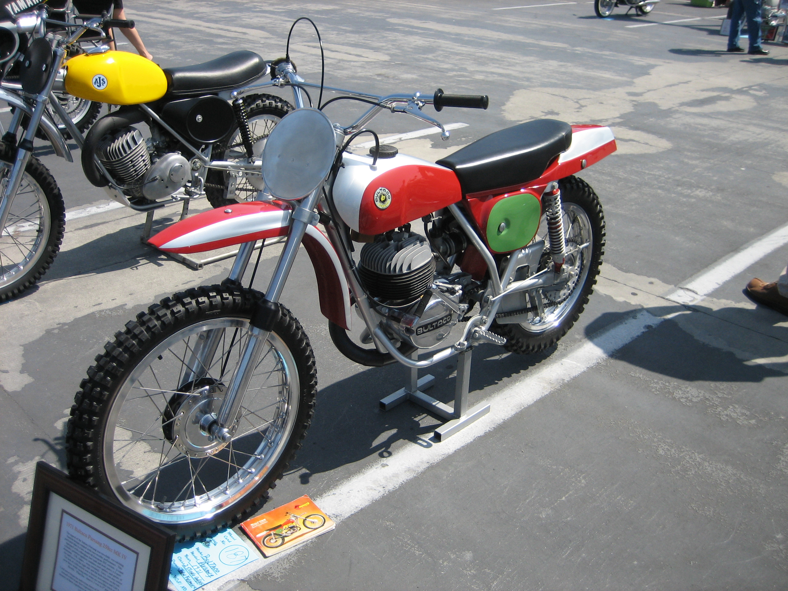 Bultaco Pursang MK4 250cc motocross (1969 - 1971) beside a yellow AJS (around 1970)